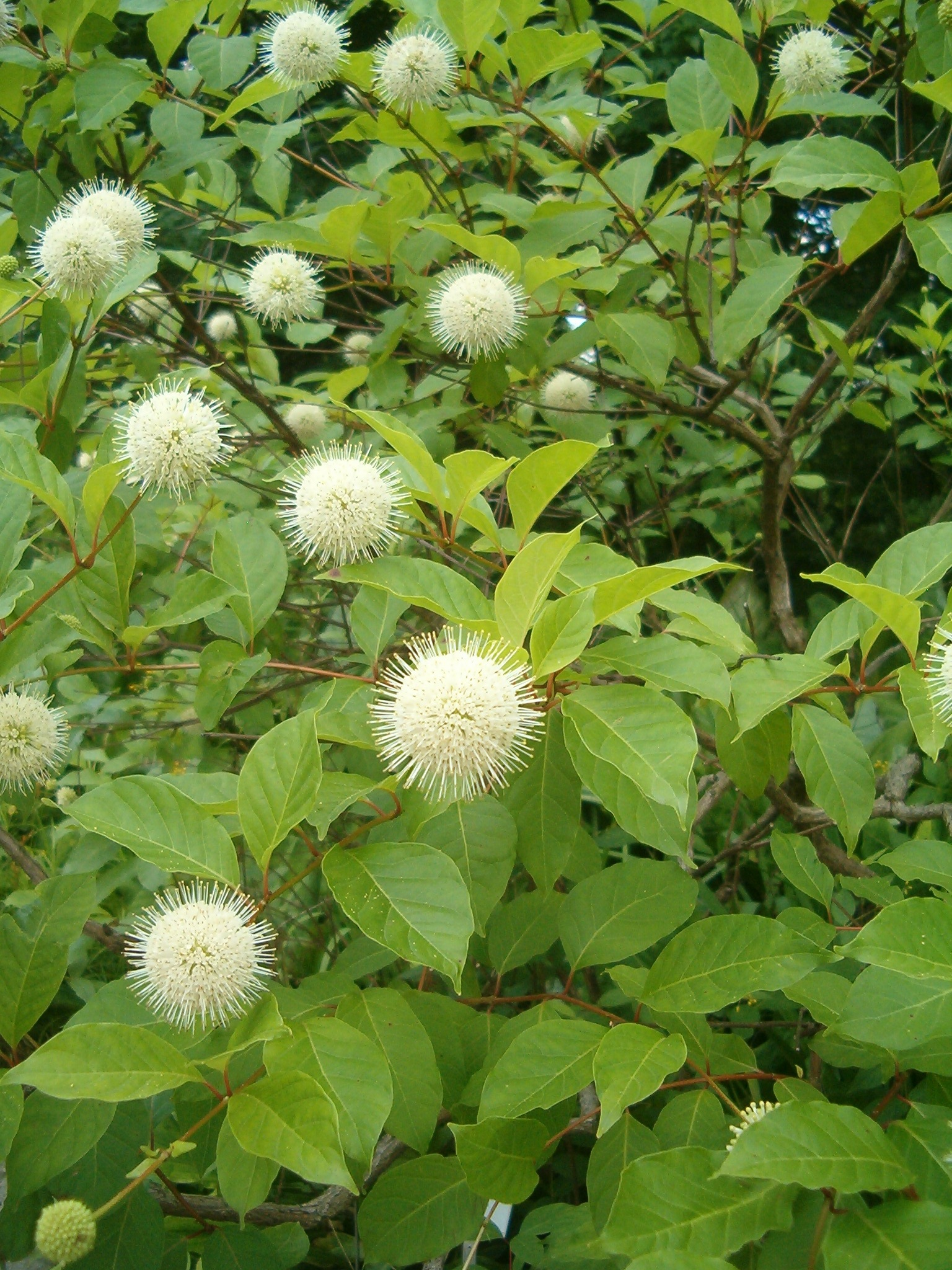 At Botanical Gardens Berlin-Dahlem Species Cephalanthus occidentalis